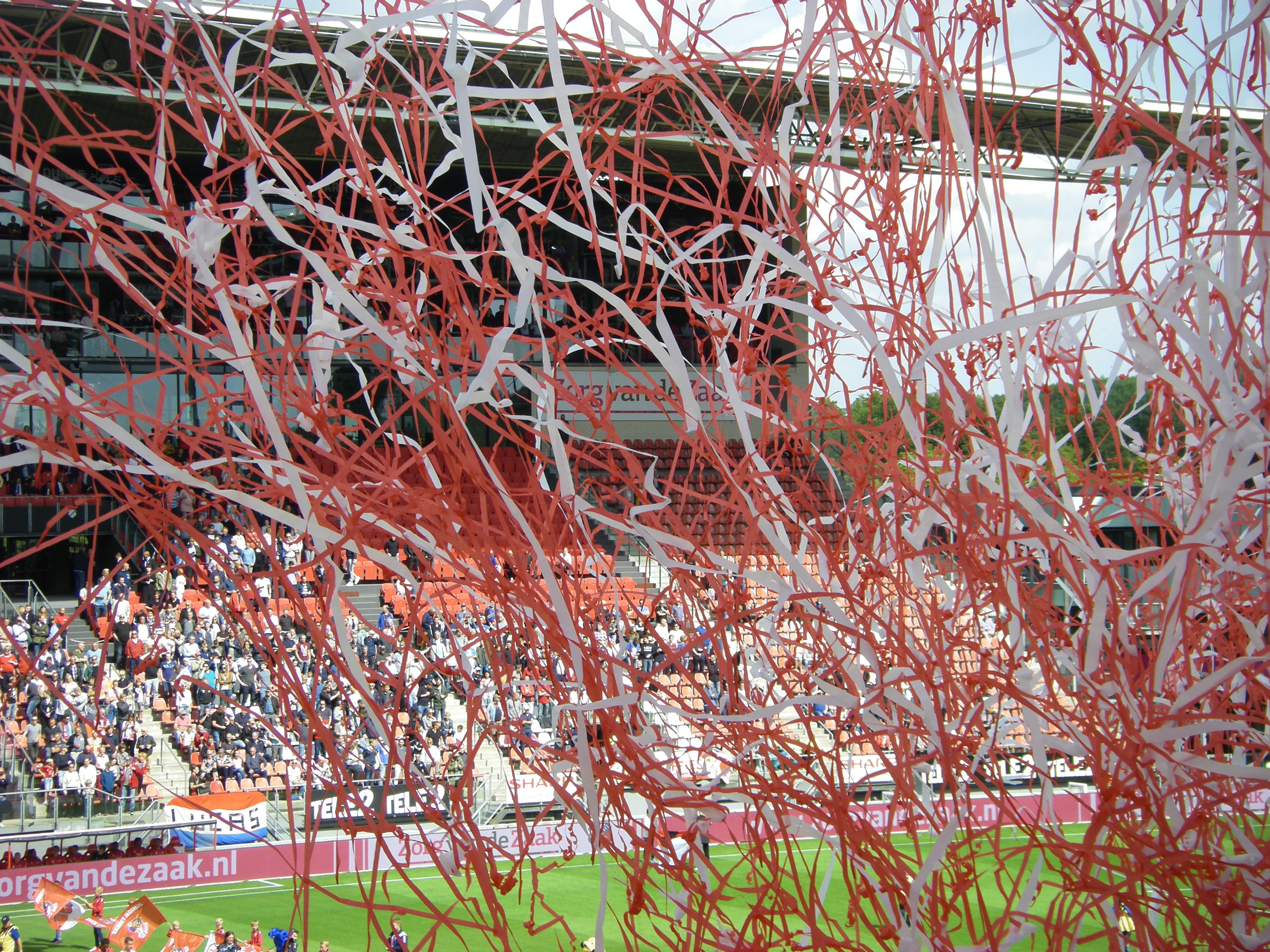 Shower of confetti before kick-off of a league match of FC Utrecht versus VVV-Venlo on Sunday, August 26, 2018